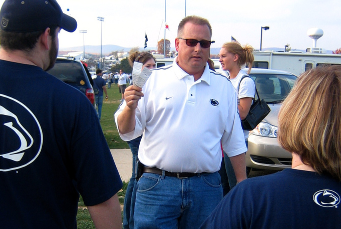 This guy was selling two tickets for $150 each.